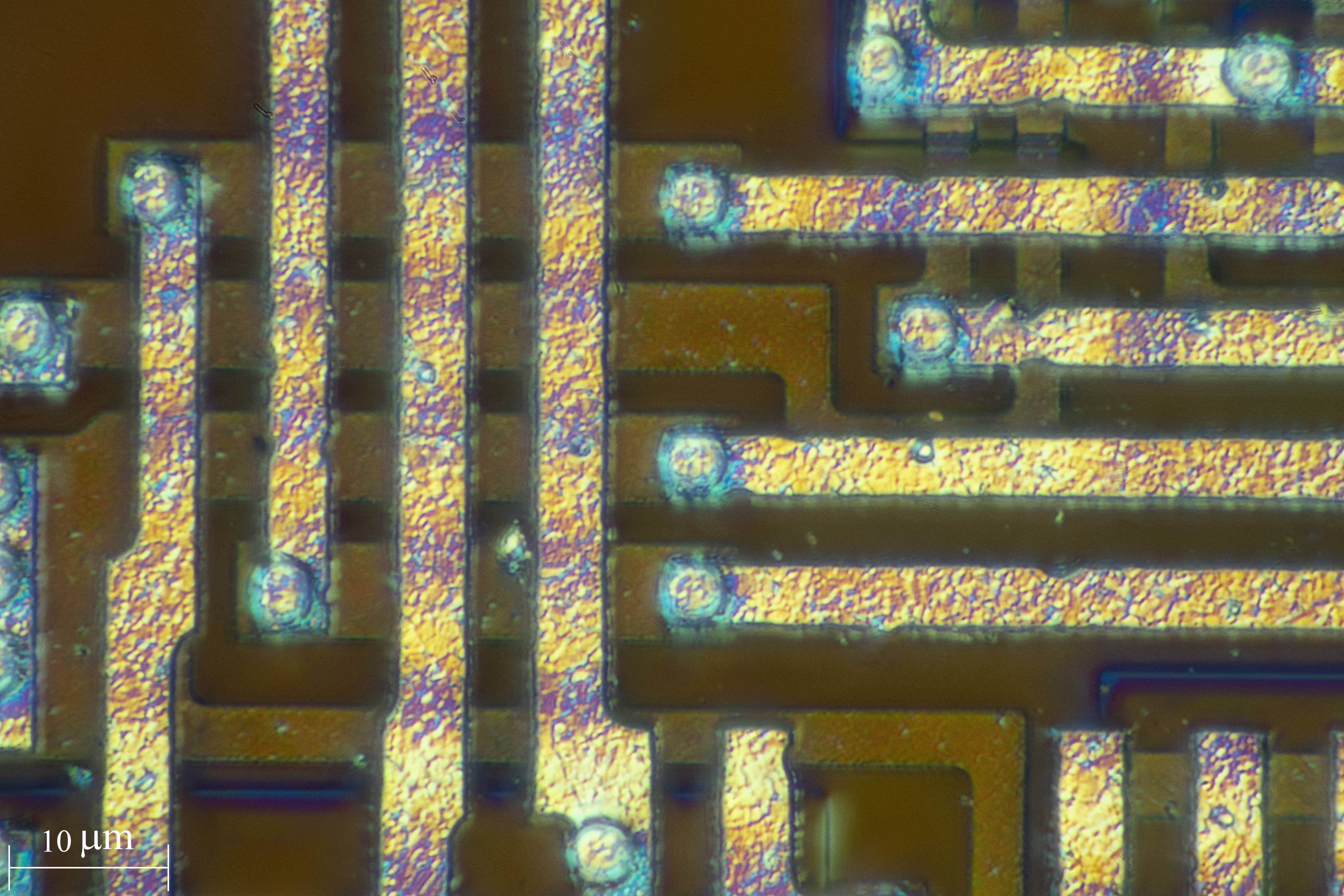 Tracks on a silicon integrated circuit under a microscope.